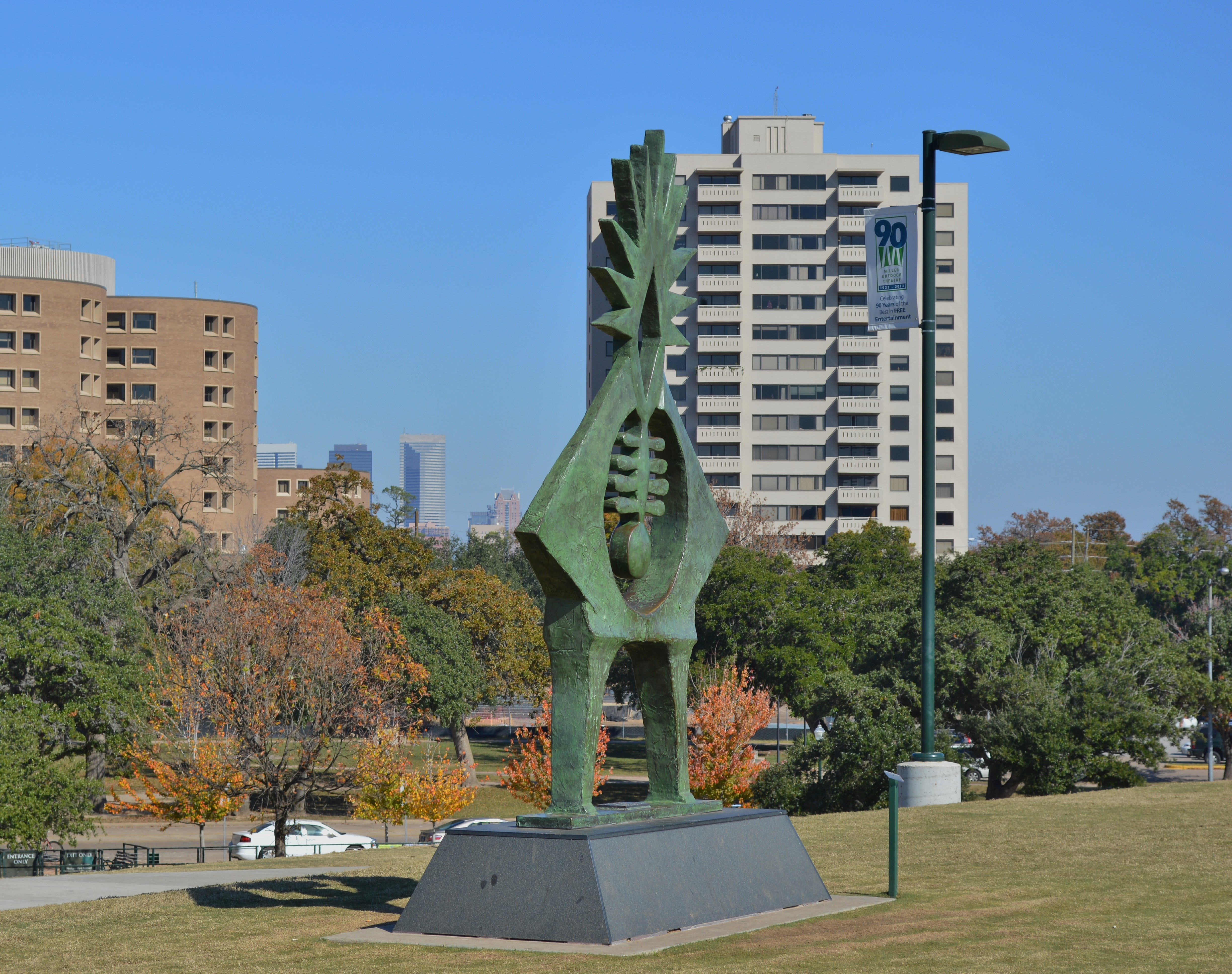 Sculpture in Hermann Park with Houston Museum District buildings in the background.